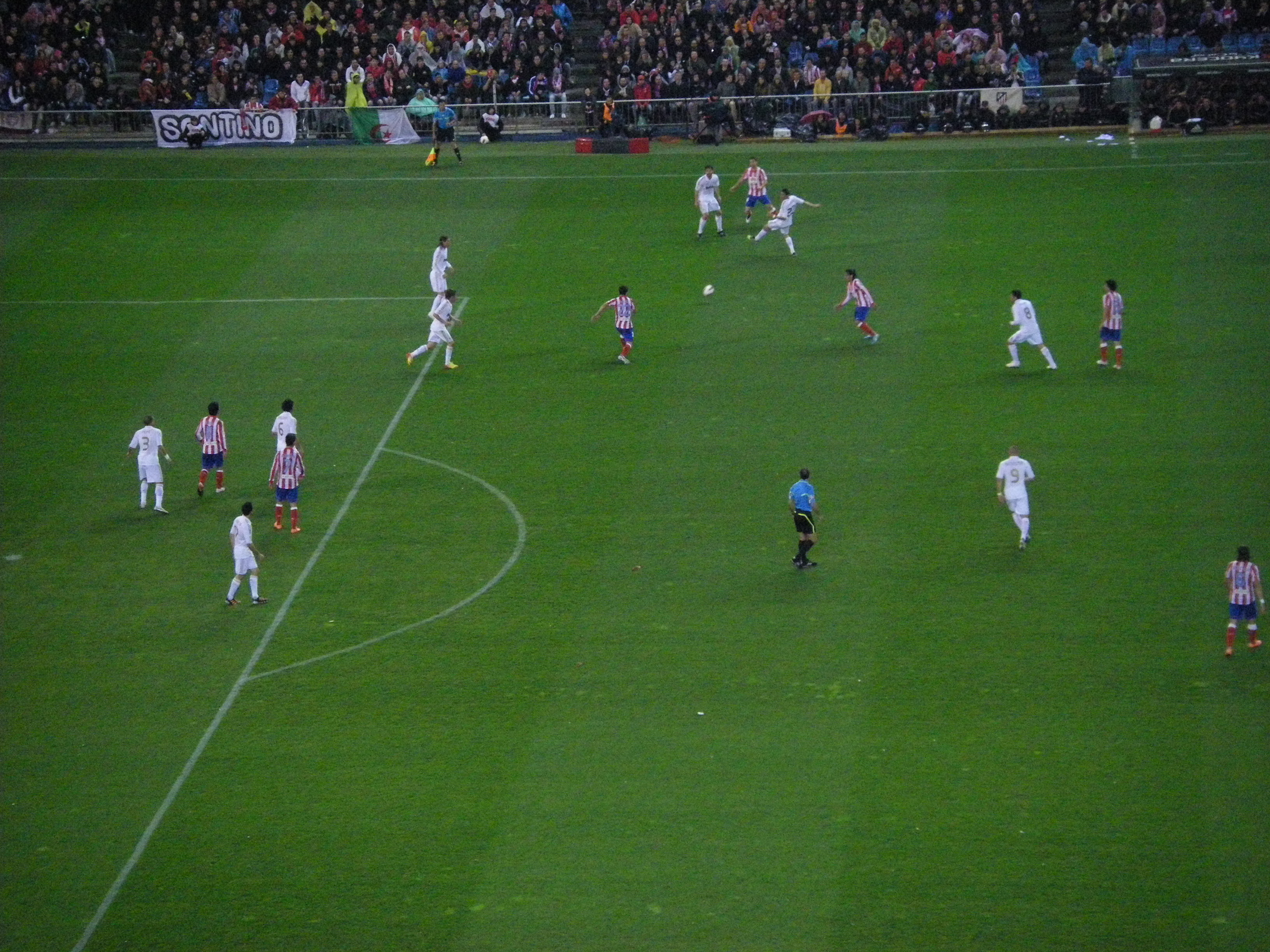 Match scene of the derbi madrileño